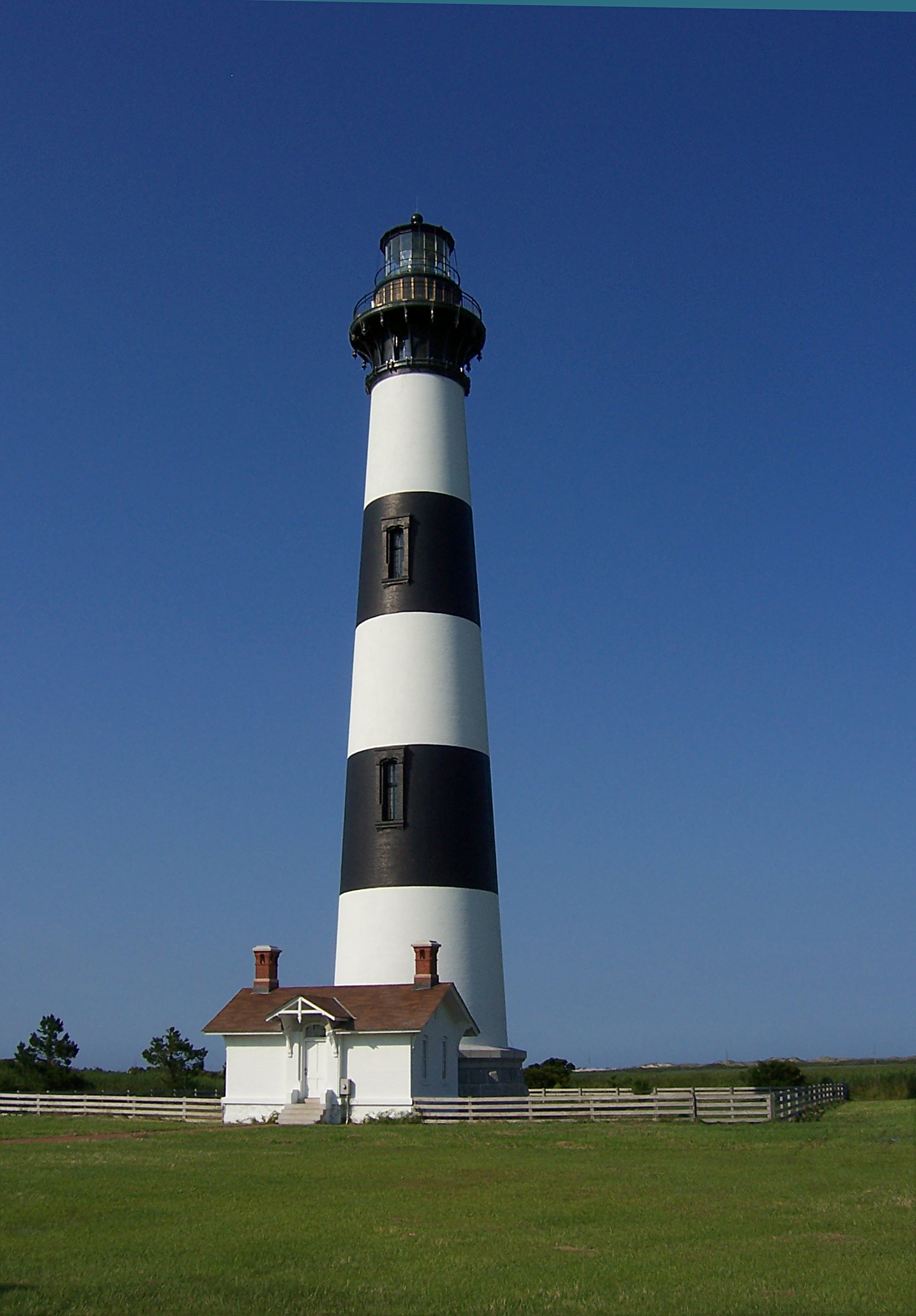 Bodie Island Lighthouse, built in 1871, is on the Cape Hatteras National Seashore, part of the Outer Banks of North Carolina.